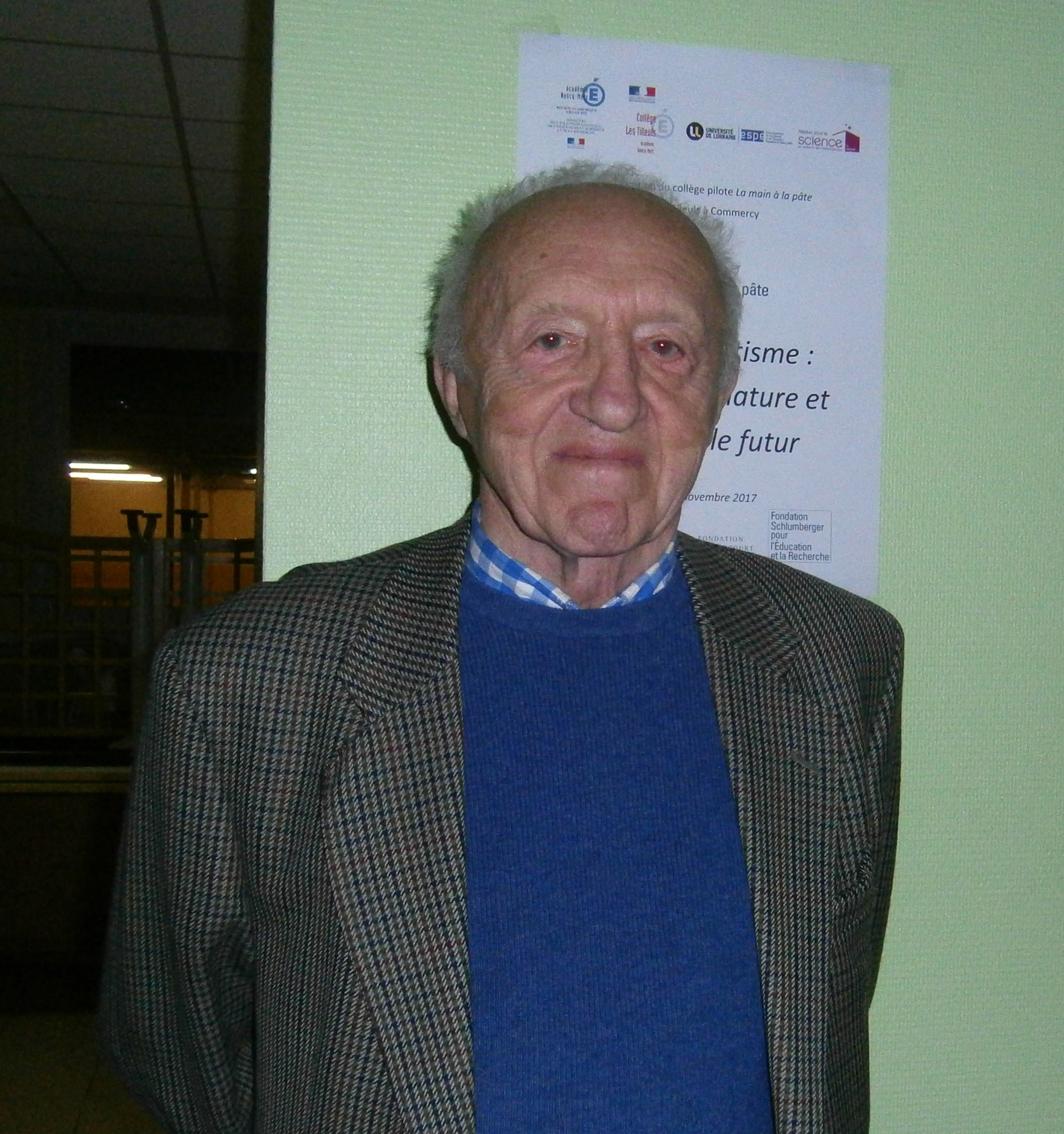 Yves Quéré - picture taken in Commercy, city where he was born, collège des Tilleuls, after his inaugural speech for the center of initiation and education to sciences "La main à la pâte".